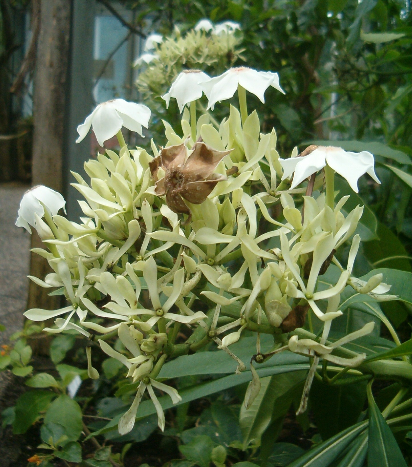 At Botanical Gardens Berlin-Dahlem Species Cerbera manghas